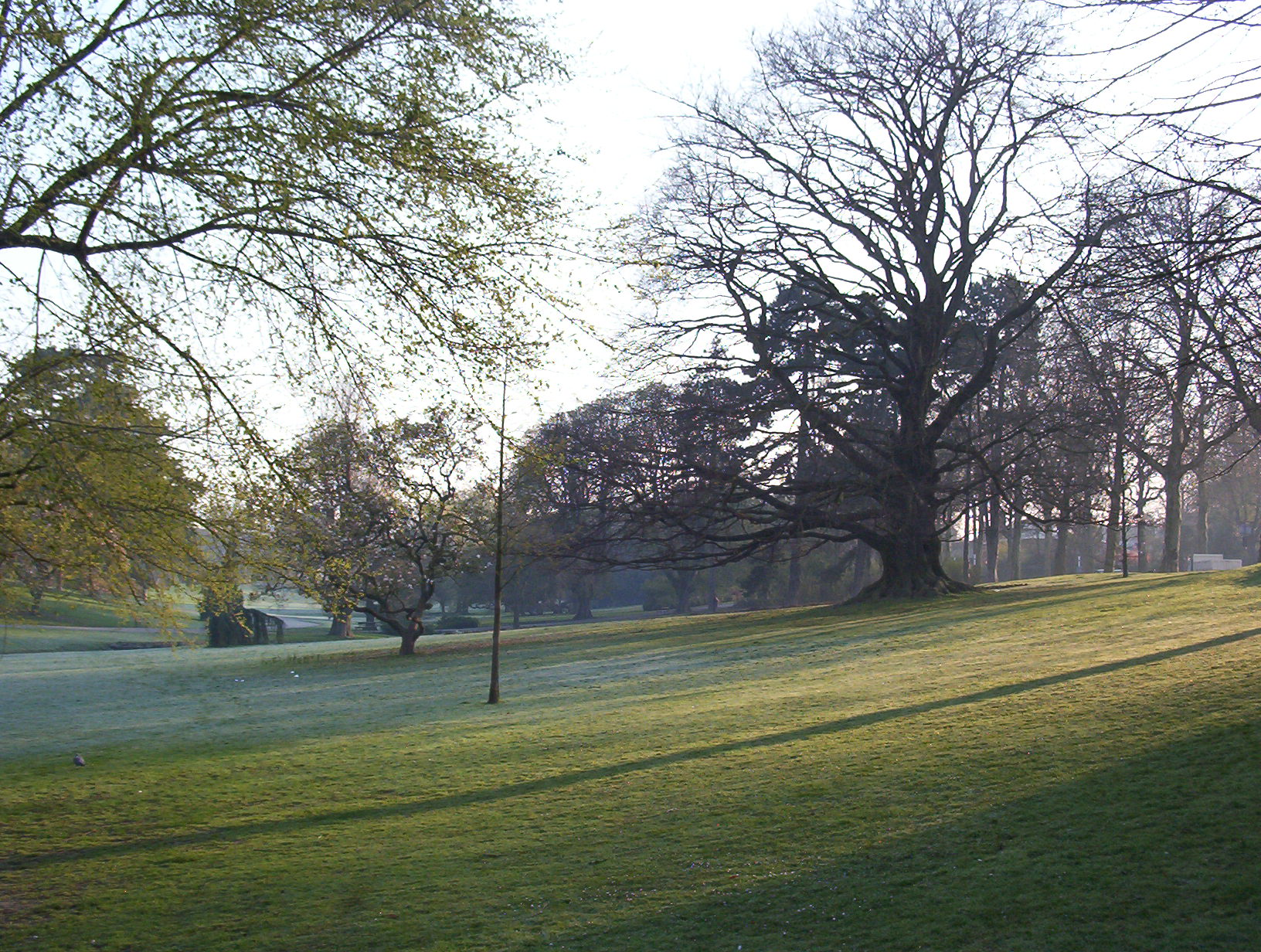 Parc Barbieux, Roubaix, France (in the morning)